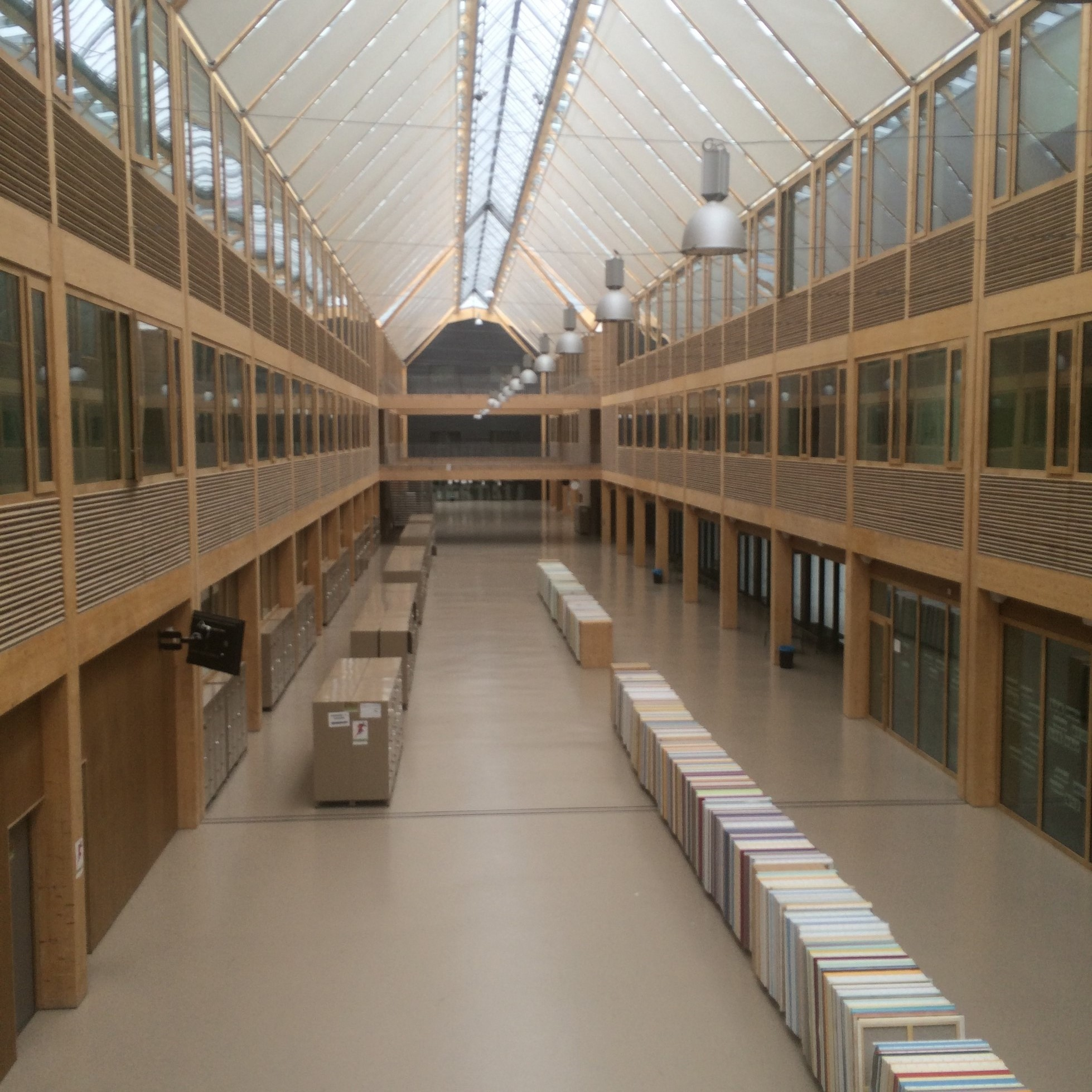 Main hall of Nelson Mandela Lycée (High school) in Nantes, France.